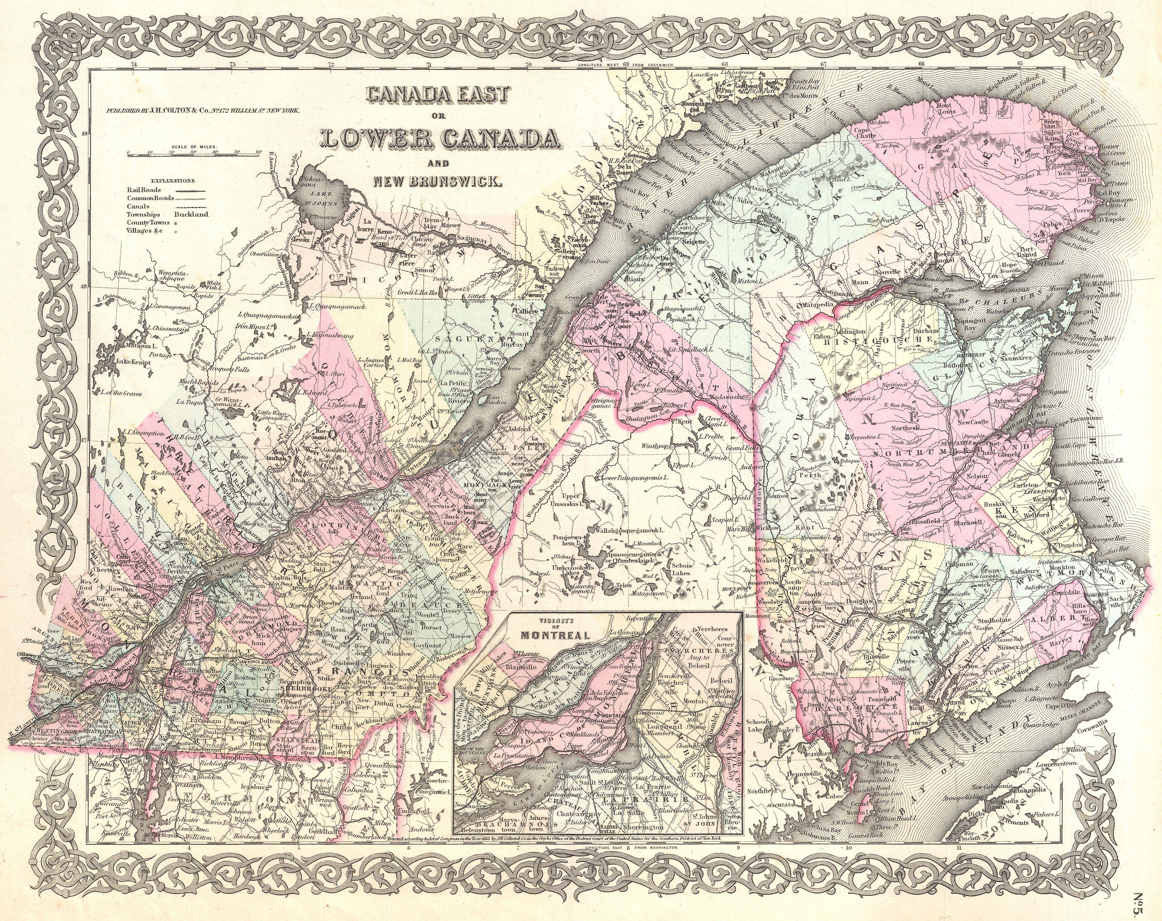 An excellent first edition example of Colton's rare map of Quebec and New Brunswick. Covers what at the time was called Lower or East Canada from Montreal in the southwest to the mouth of the St. Lawrence River in the northwest. Includes the province of New Brunswick. Throughout the map Colton identifies various cities, towns, forts, rivers, rapids, fords, and an assortment of additional topographical details. Map is hand colored in pink, green, yellow and blue pastels to define national and regional boundaries. Surrounded by Colton's typical spiral motif border. Dated and copyrighted to J. H. Colton, 1855. Published as page no. 5 in volume 1 of the first edition of George Washington Colton's 1855 Atlas of the World .